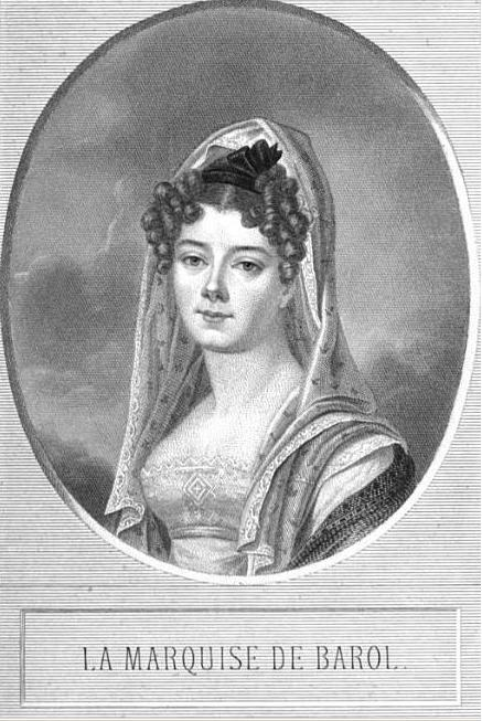 Juliette de Colbert, lady of Barolo (1785-1864)